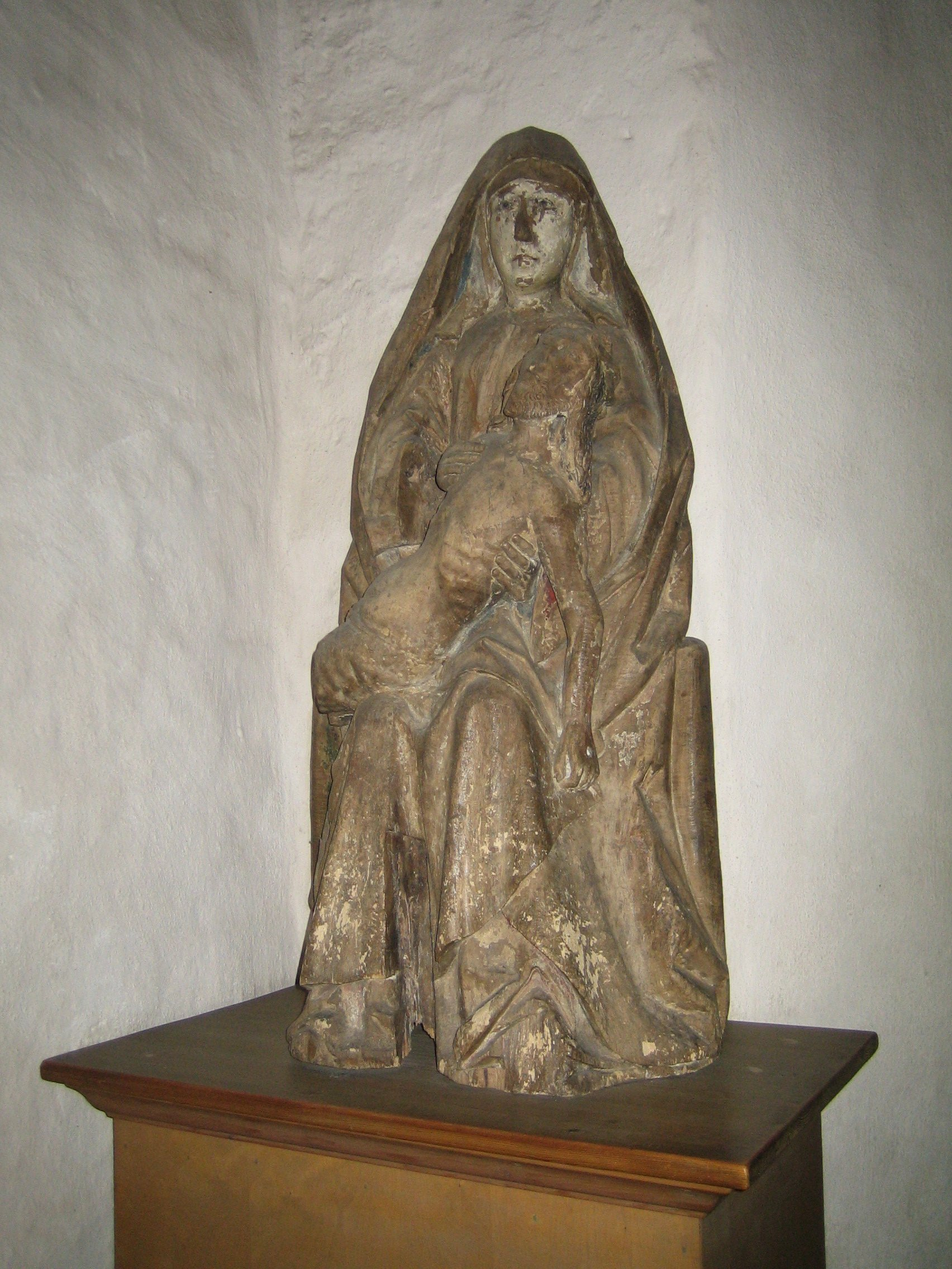 Madonna and child. Church of Naantali, Finland.